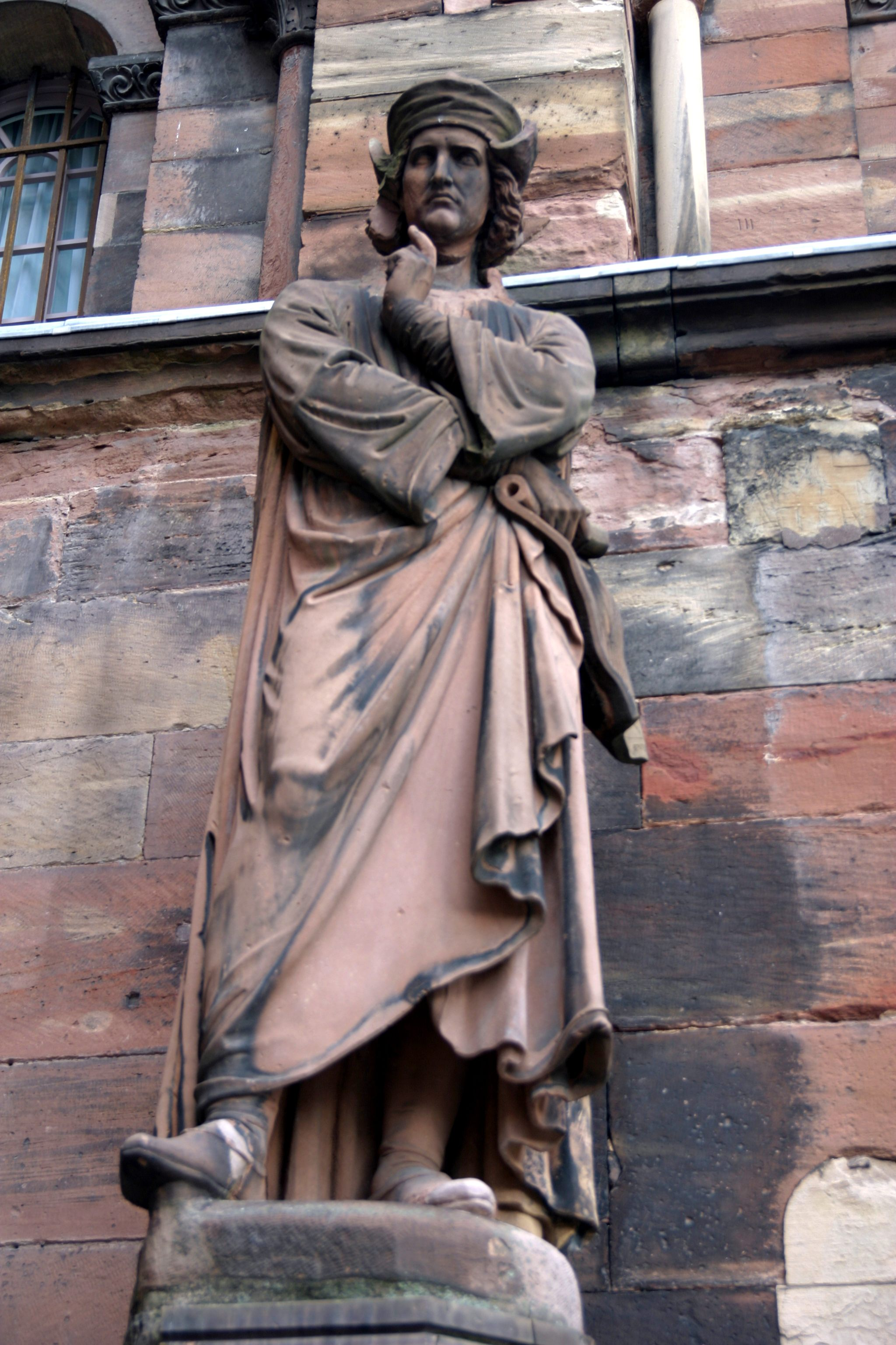 This image was taken at Strasbourg Cathedral, Strasbourg.